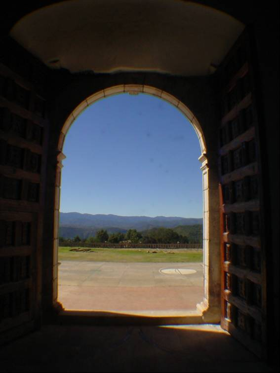 CAPULALPAM PUEBLO MAGICO